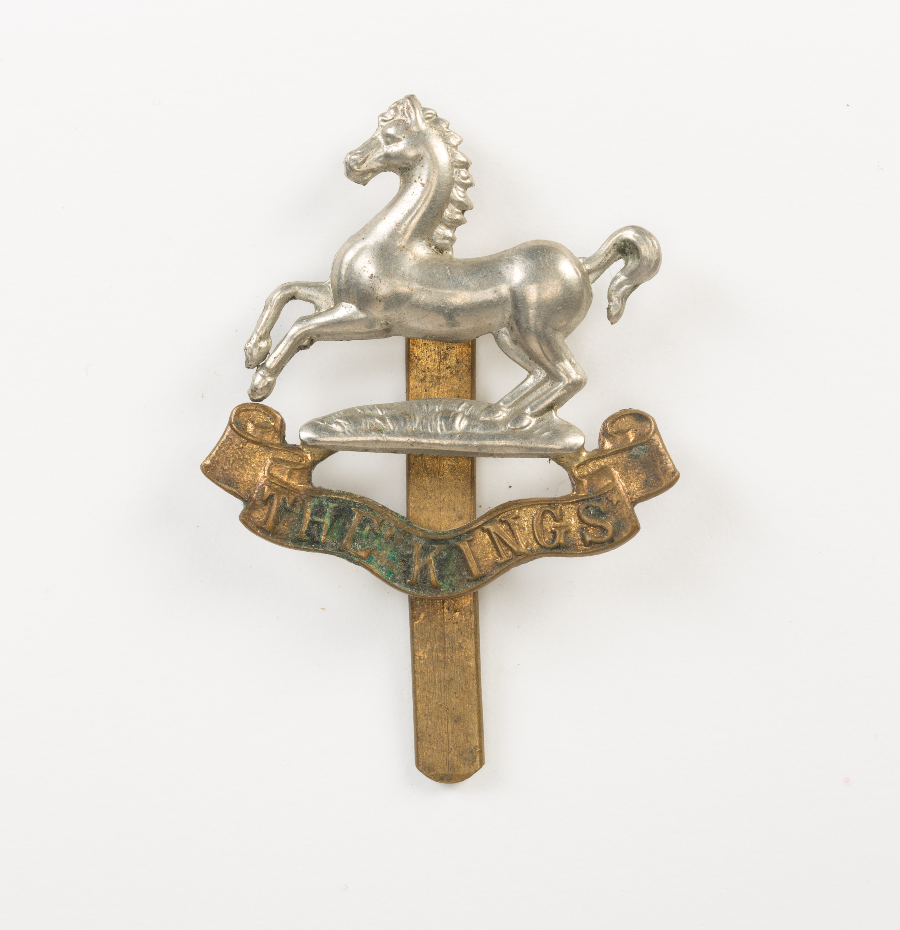 Badge, regimental. King's Liverpool Regiment cap badge The King's Regiment (Liverpool) was one of the oldest line infantry regiments of the British Army, having been formed in 1685 and numbered as the 8th (The King's) Regiment of Foot in 1751. Unlike most British Army infantry regiments, which were associated with a county, the King's represented the city of Liverpool, one of only four regiments affiliated to a city in the British Army.